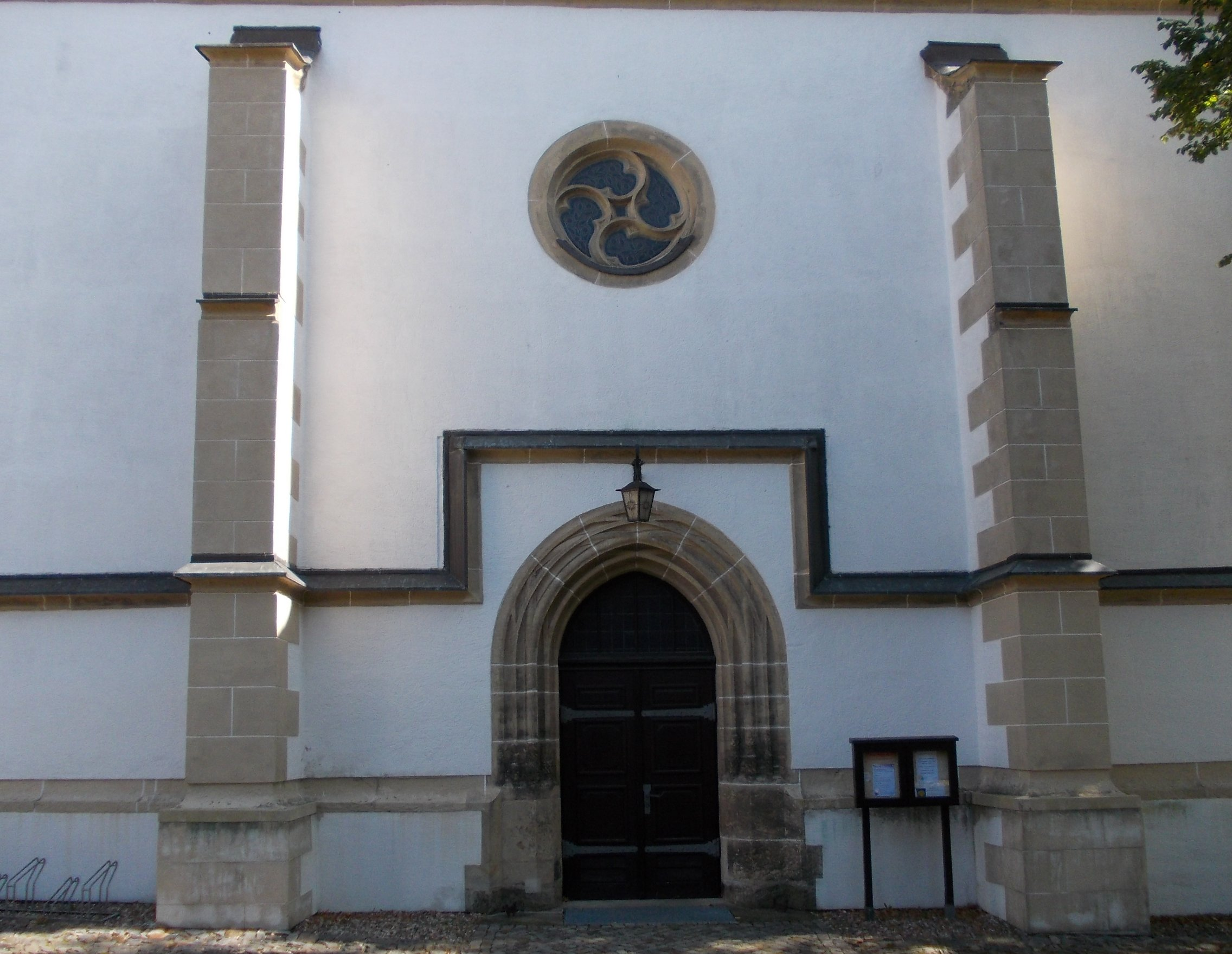 The church of the town of Strehla (Meissen district, Saxony)